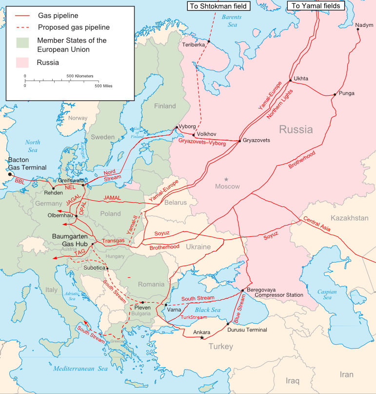 Map of the major existing and proposed russian natural gas transportation pipelines to europe.